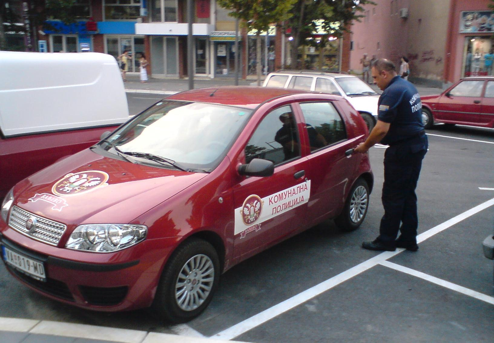 Communal police of the City of Valjevo